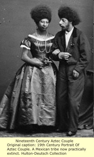 19th century portrait of Aztec couple. A Mexican tribe now practically extinct.